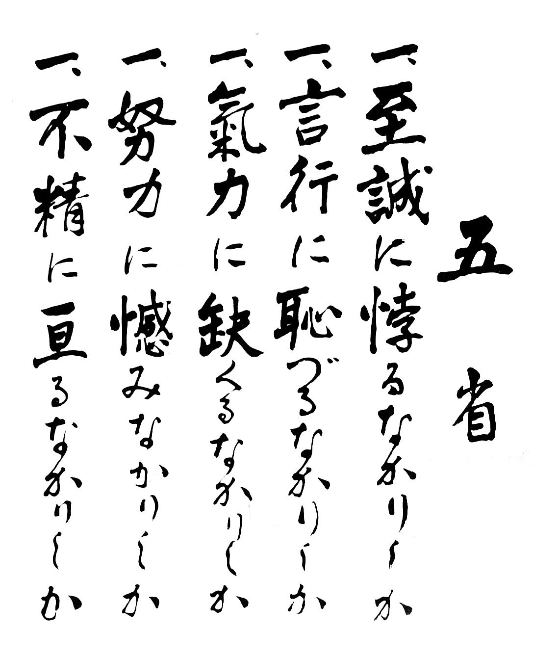 1=The "Five Reflections" (Go-sei "five truths" in Japanese), was promulgated in 1932 on the occasion of the fiftieth anniversary of Emperor Meiji's Imperial Prescript to the Soldiers and Sailors. They were the words of Rear Admiral Hajime Matsushita, who was then the superintendent of the Imperial Japanese Naval Academy at Etajima. Hast thou not gone against sincerity? or Have I compromised my sincerity? (Hitotsu, shisei ni motoru, nakarishika) Hast thou not felt ashamed of thy words and deeds? or Have I spoken or acted shamefully? (Hitotsu, genkou ni hazuru, nakarishika) Hast thou not lacked vigor? or Have I been lacking in spiritual vigor? (Hitotsu, kiryoku ni kakuru, nakarishika) Hast thou exerted all possible efforts? or Must I regret the level of my effort? (Hitotsu, doryoku ni urami, nakarishika) Hast thou not become slothful? or Have I lapsed into laziness? (Hitotsu, bushou ni wataru, nakarishika) Explanation: Each of the self-checking questions begins with the word "One" (Hitostu). Instead of listed elements &ndsash; one, two, three, etc. – none of the Gosei are subordinated to another. In other words, all of the precepts are significant and equal in value. None are subordinated to another. Each of the introspective enquiries ends with an archaic or classical Japanese phrase meaning "hast thou not?" or "have I not?" (nakarishika). See reference sources: (a) Robinson, Paul, Nigel De Lee and Don Carrick. (2008). Ethics Education in the Military. Aldershot, England; Burlington, Vermont: Ashgate Publishing. 13-ISBN 978-0-754-67114-5, 10-ISBN 0-754-67114-3; 12-978-0-75467115-2, 10-ISBN 0-754-671151; OCLC 170203920; (b) Yale University Kendo, 2007